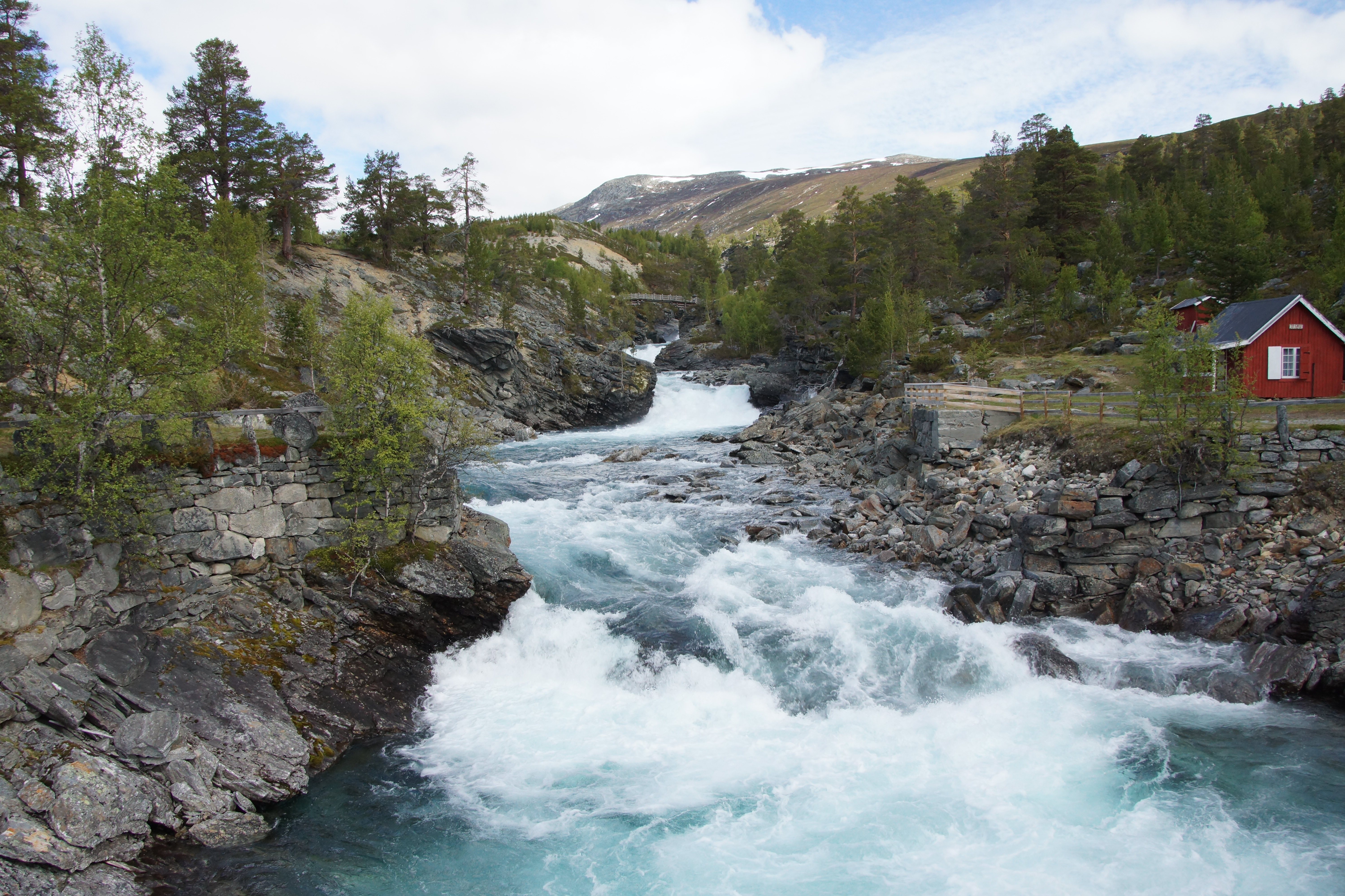 Torda river near Billingen in Skjåk, Norway, near confluence with Otta river